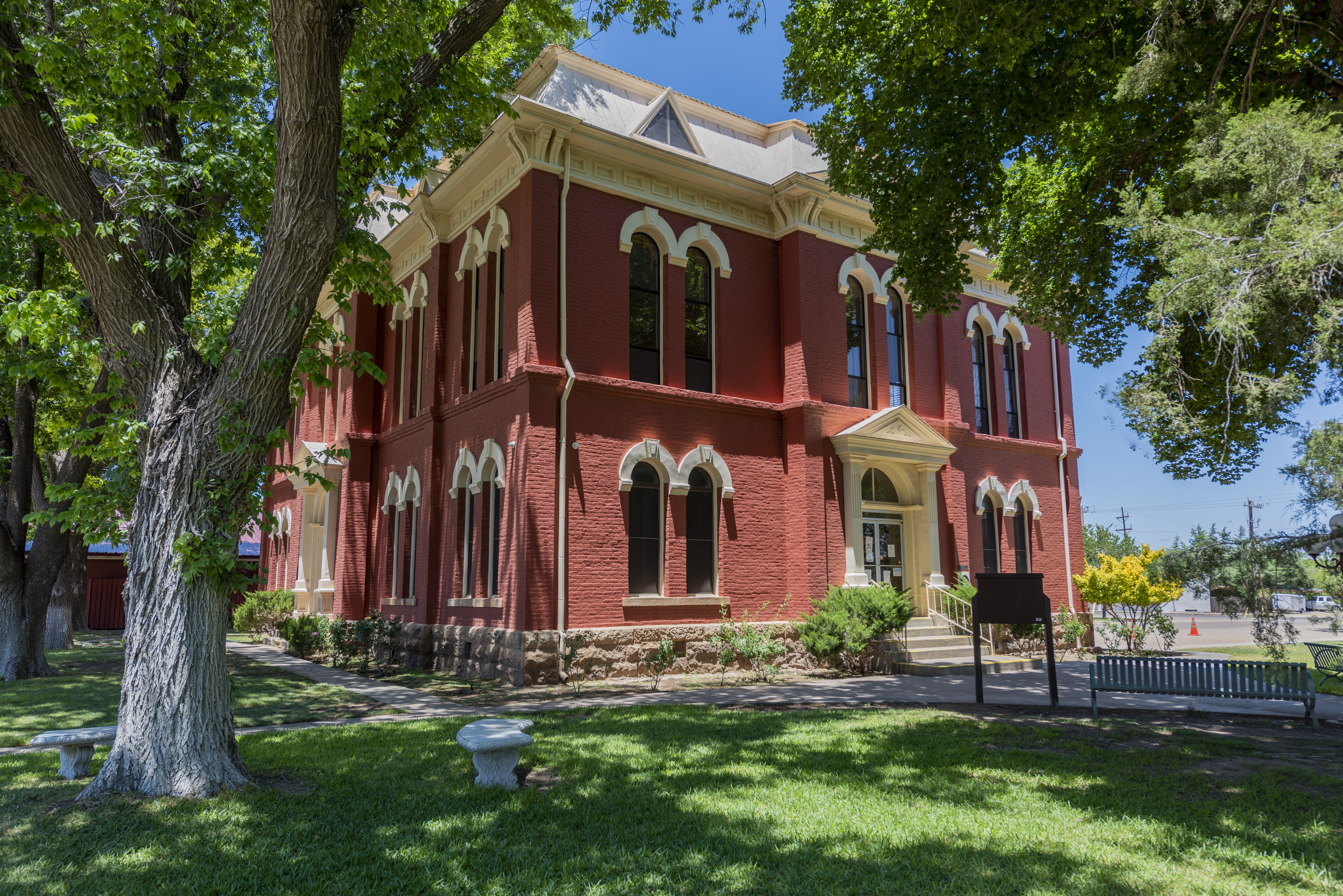 Image of the Brewster County courthouse located in Alpine, Texas. Image taken in June 2020.